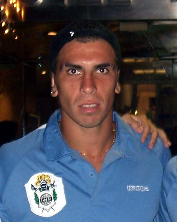 Denis Stracqualursi is a football player.